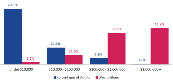 Bar graph representing income